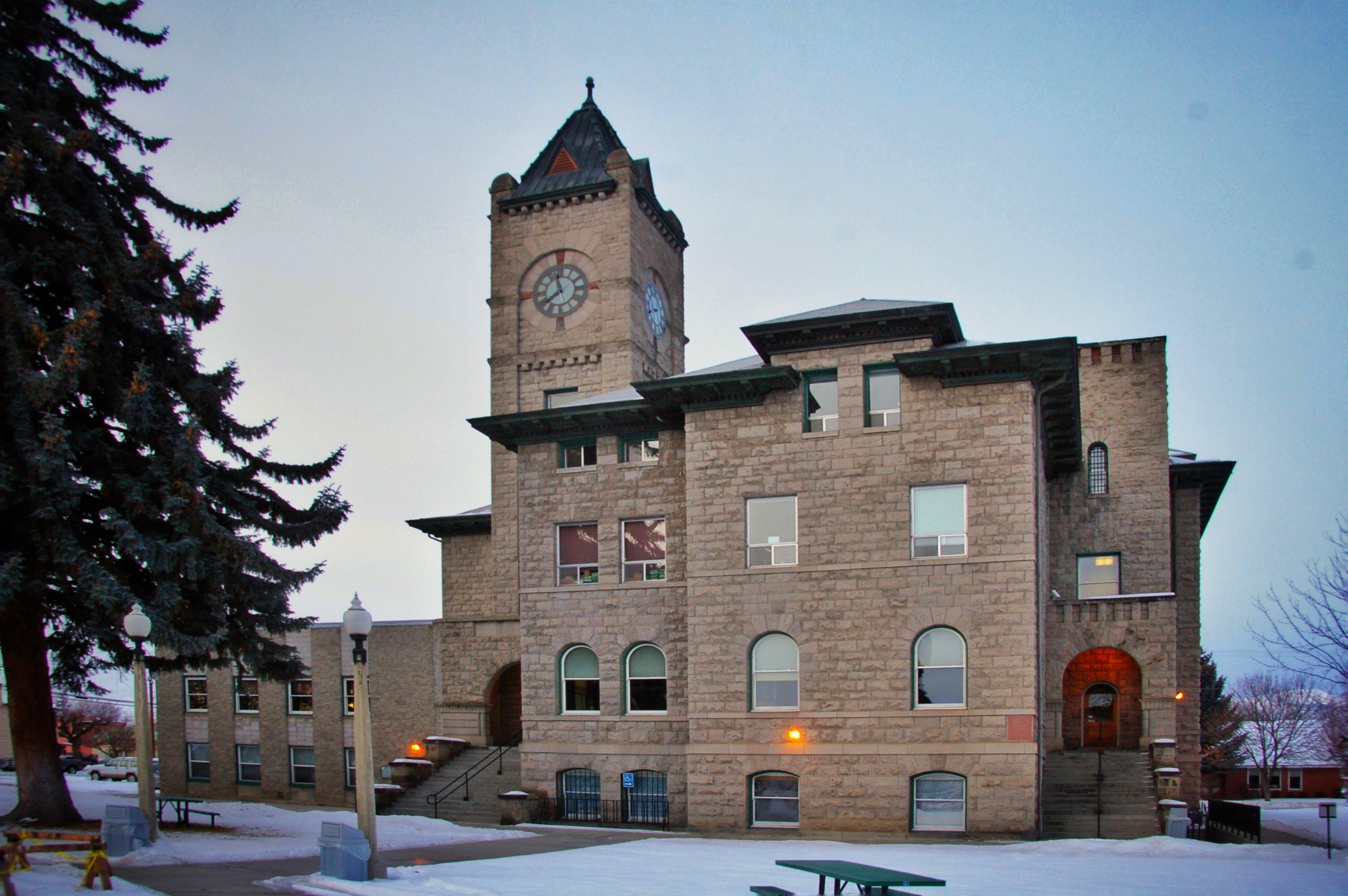 Baker City Oregon municipal building